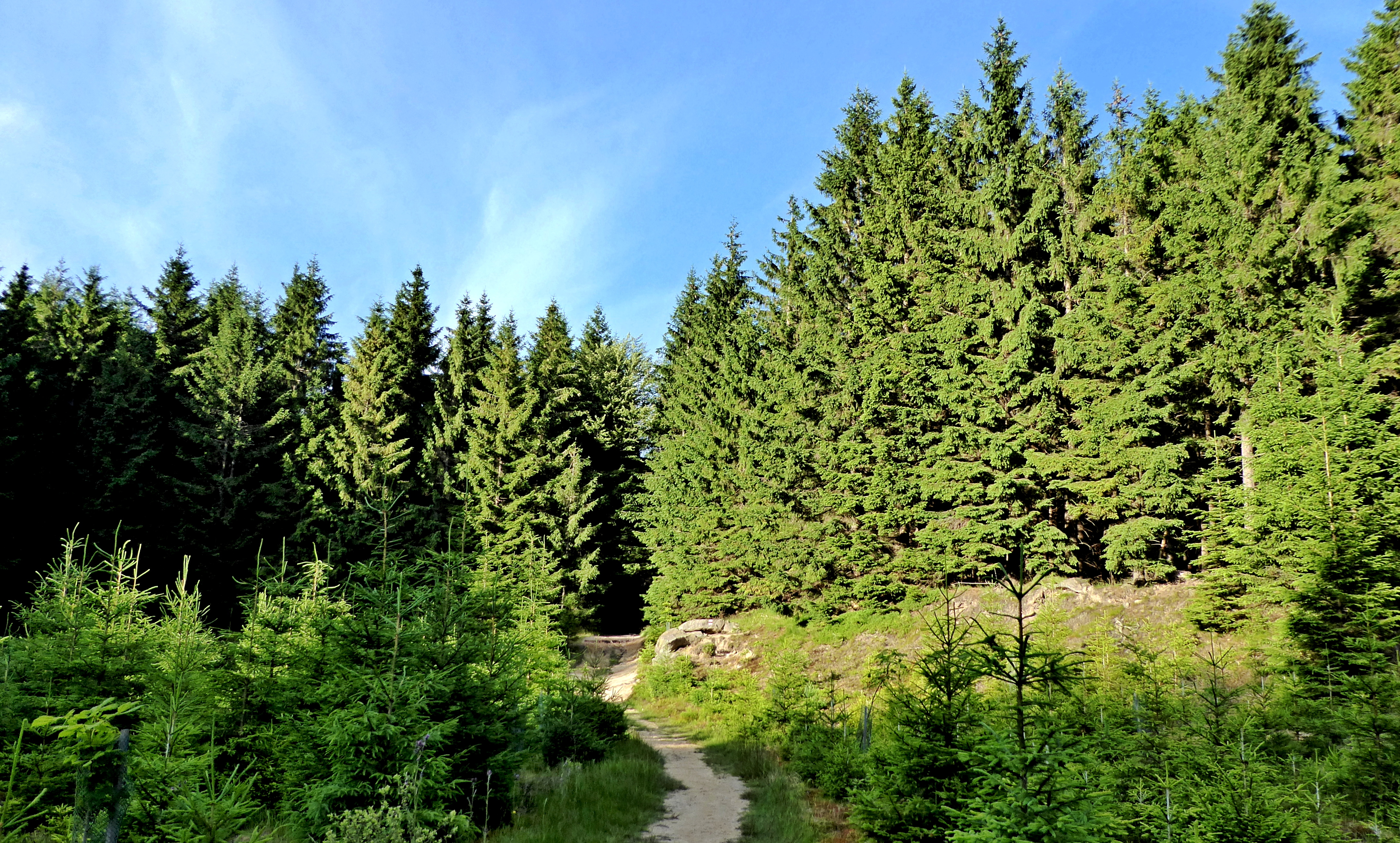 The forest path with the hiking route of the Club of Czech Tourists (red marked). In the photo in right is forest area Dry hill with top of terrain (816 m asl), in the left falls georelief to the trigonometric point At kitchen (815 m asl). On the photo is part of the route from the top of the saddle under the top hill Shrubbery (830 m) towards The dry hill (816 m), near the path also small rocks. Dry hill is a standardized geographical name of the forest land at the top of the ridge of "Žďárské" hills. The top of the terrain is situated at an altitude of 816 m according to a contour map in the georelief of "Devítiskalská" Highlands. In the lower position of the ridge of the highlands the trigonometric point called At kitchen with leveling 815 m above sea level (on tourist maps also labeled Dry hill). Forest location without a view of the surrounding area. Within the administrative on the cadastral area of Blatiny, part of the small town of "Sněžné" in the district "Žďár nad Sázavou", belonging to the "Vysočina" Region in the territory of the Czech Republic. Photo-location: Czechia, "Vysočina" Region, small town "Sněžné", cadastral area Blatiny, "Devítiskalská" Highlands, Dry hill, view on the forest locality from the hiking route.